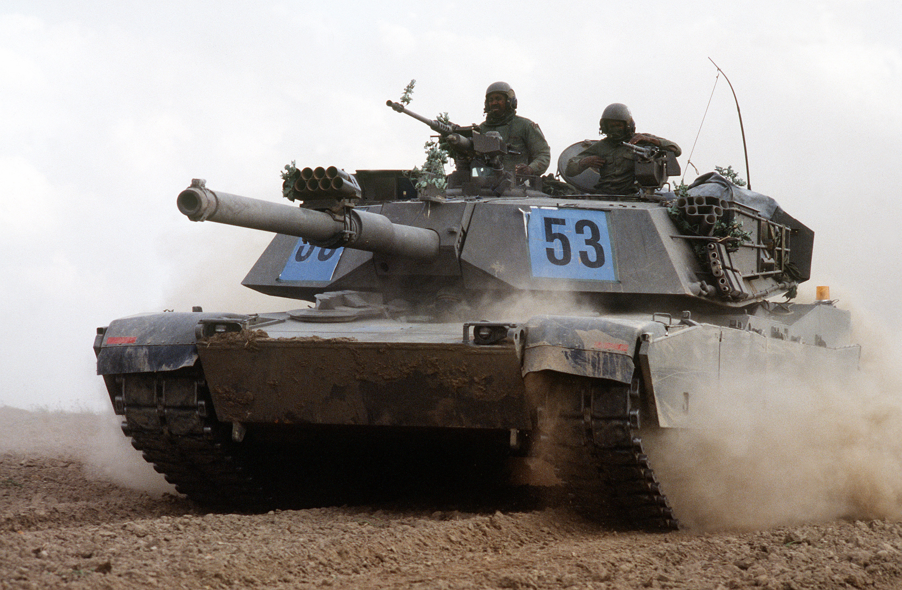 A U.S. Army M1 Abrams tanks kicks up a cloud of dust in the German countryside while participating in REFORGER '82, the multi-national military training exercise. Exact Date Shot Unknown